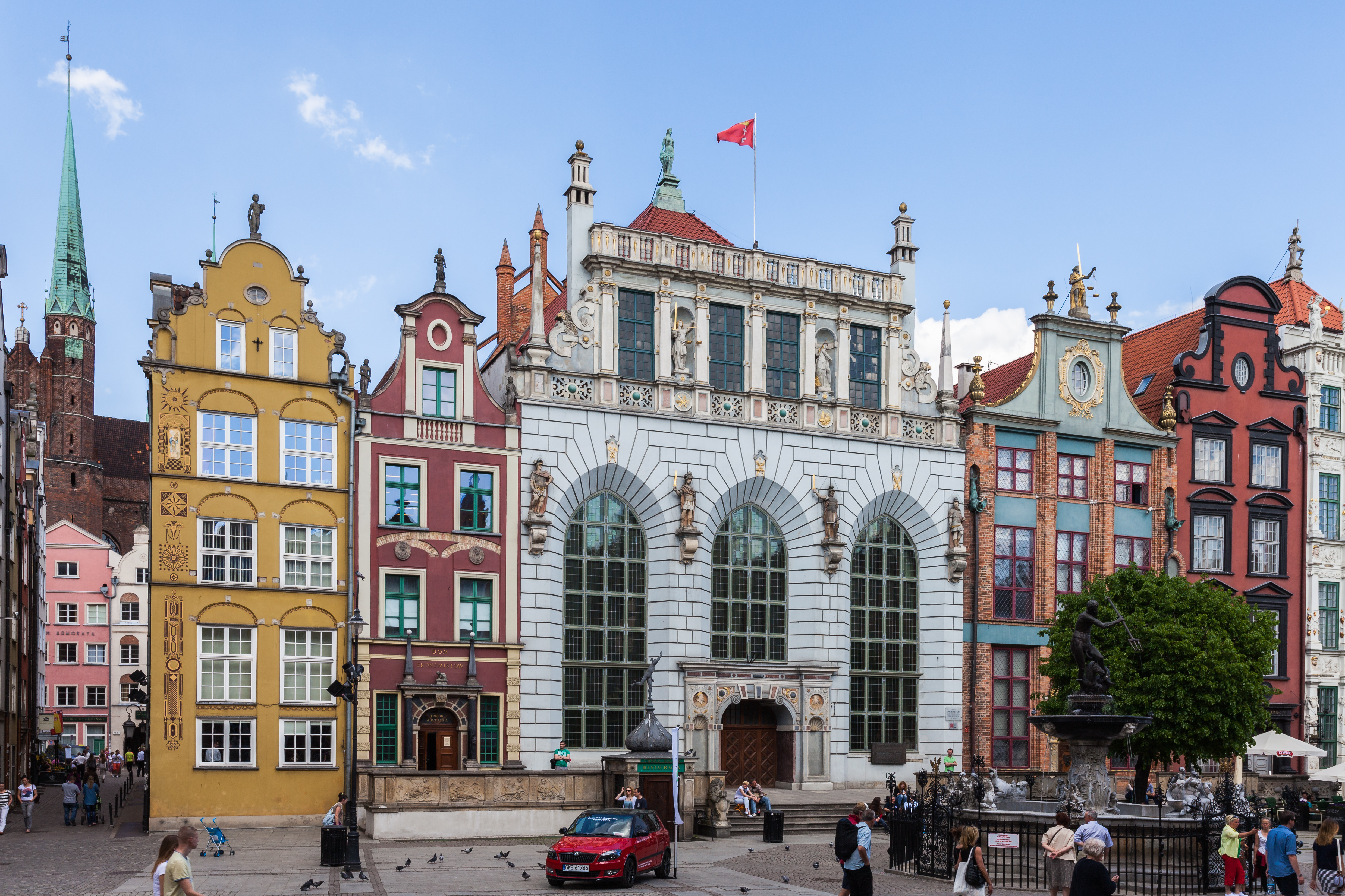 Artus Court, Gdansk, Poland